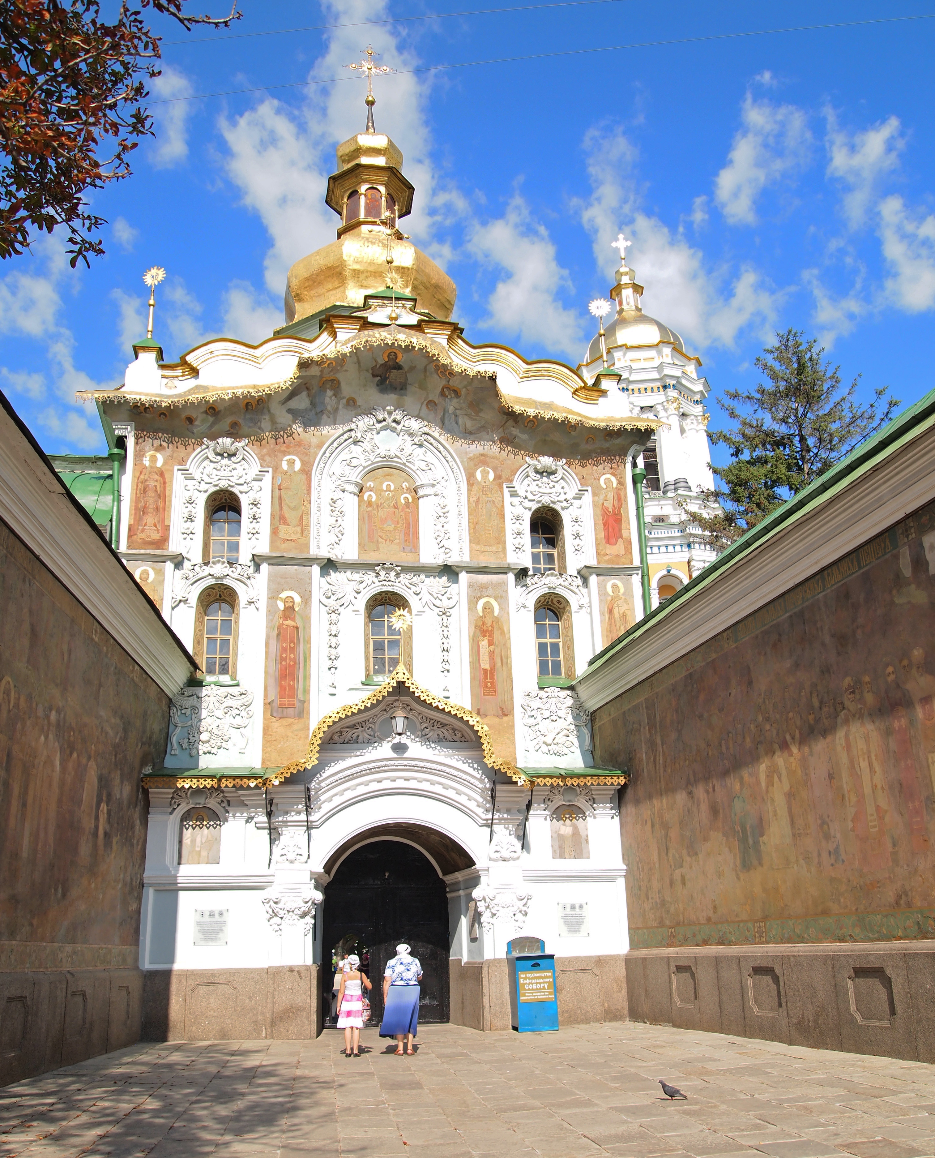 Gate Church of the Trinity in Kiev. This photograph was taken with an Olympus E-PL1